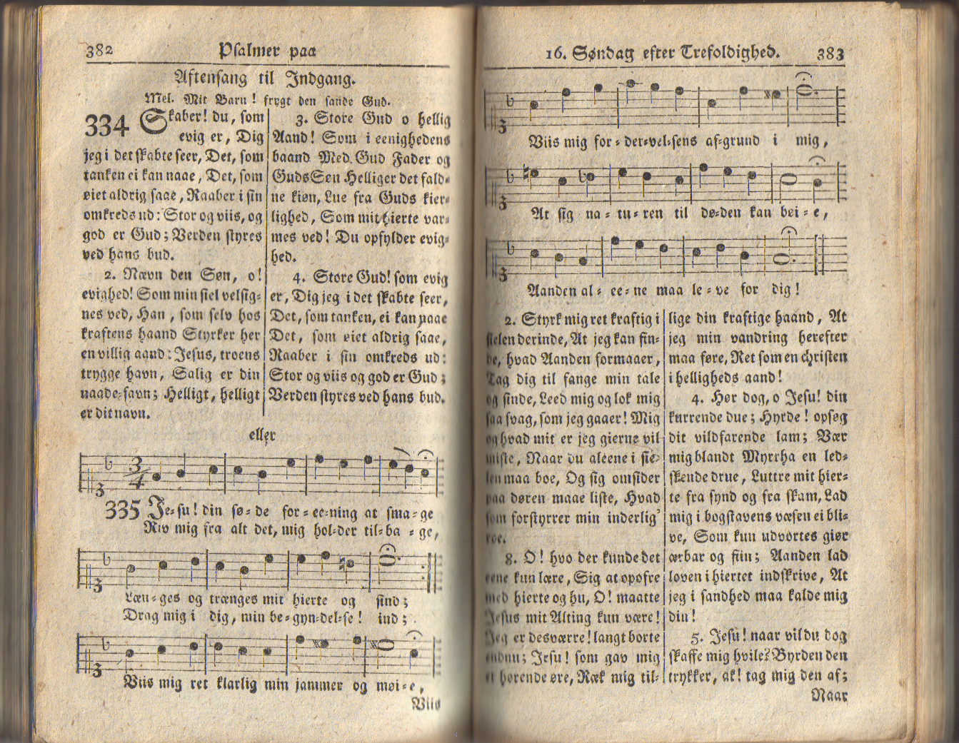 Music sheet to the hymn "Jesu din søde foreening å smage" from Schiørring/Guldberg